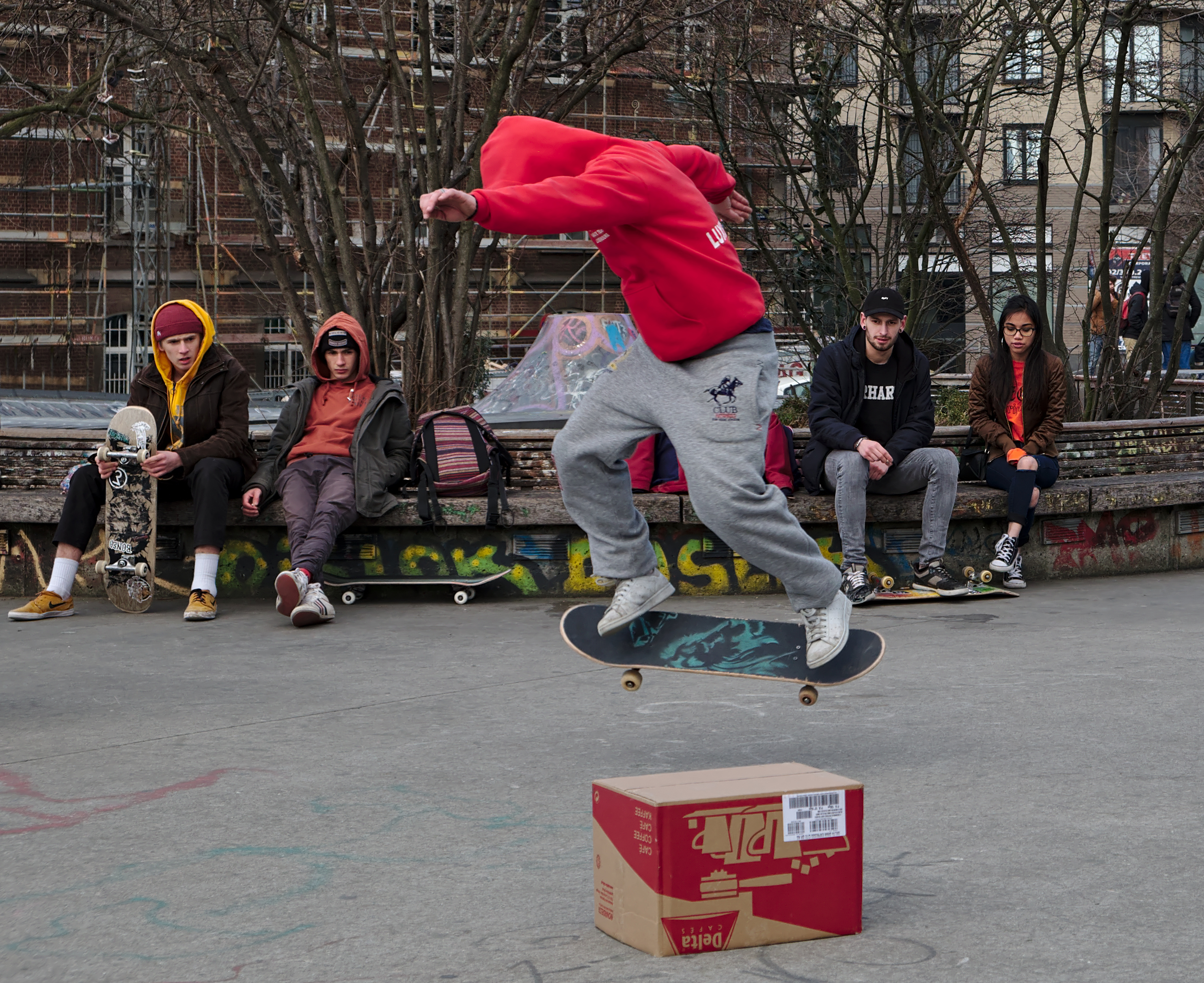 Skateboarder jumping over a cardboard box at Skatepark des Ursulines in Brussels, Belgium (cropped)